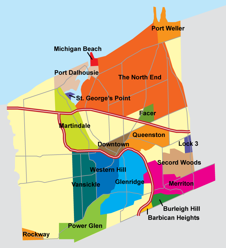 St. Catharines Communities